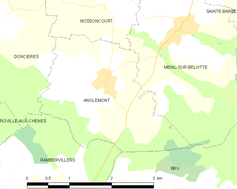 Map of French municipality Anglemont